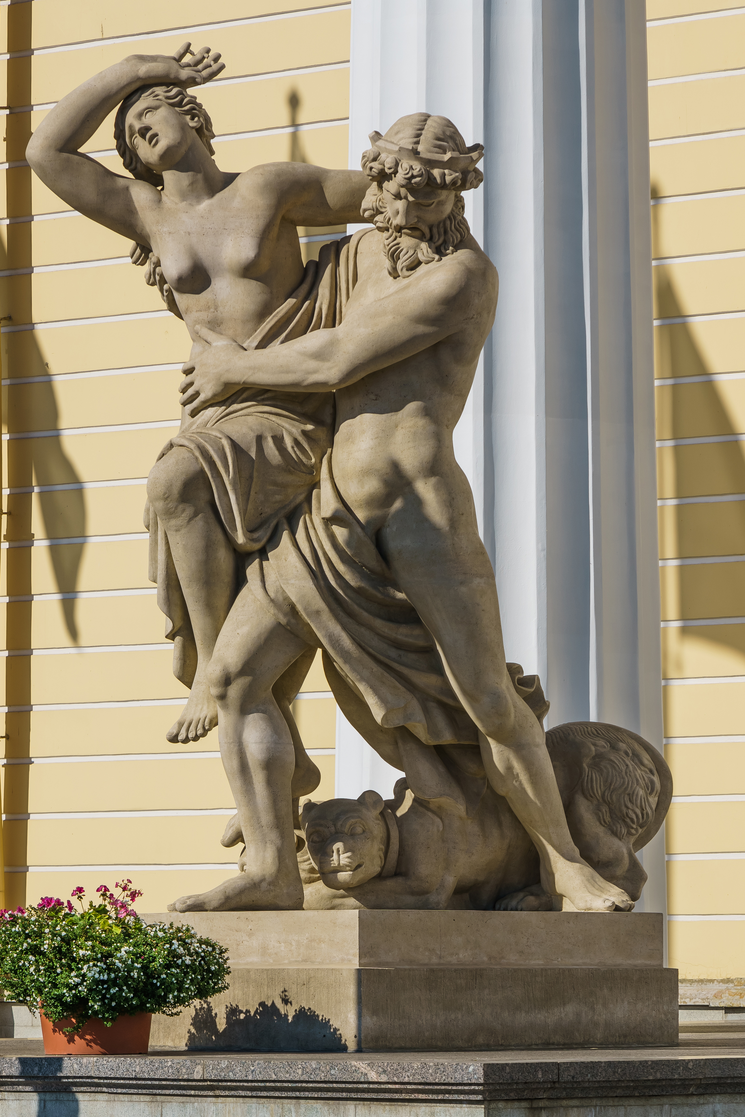 Building of the Mining College on Vasilievsky Island in Saint Petersburg, Russia